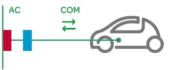 Mode 2 EV